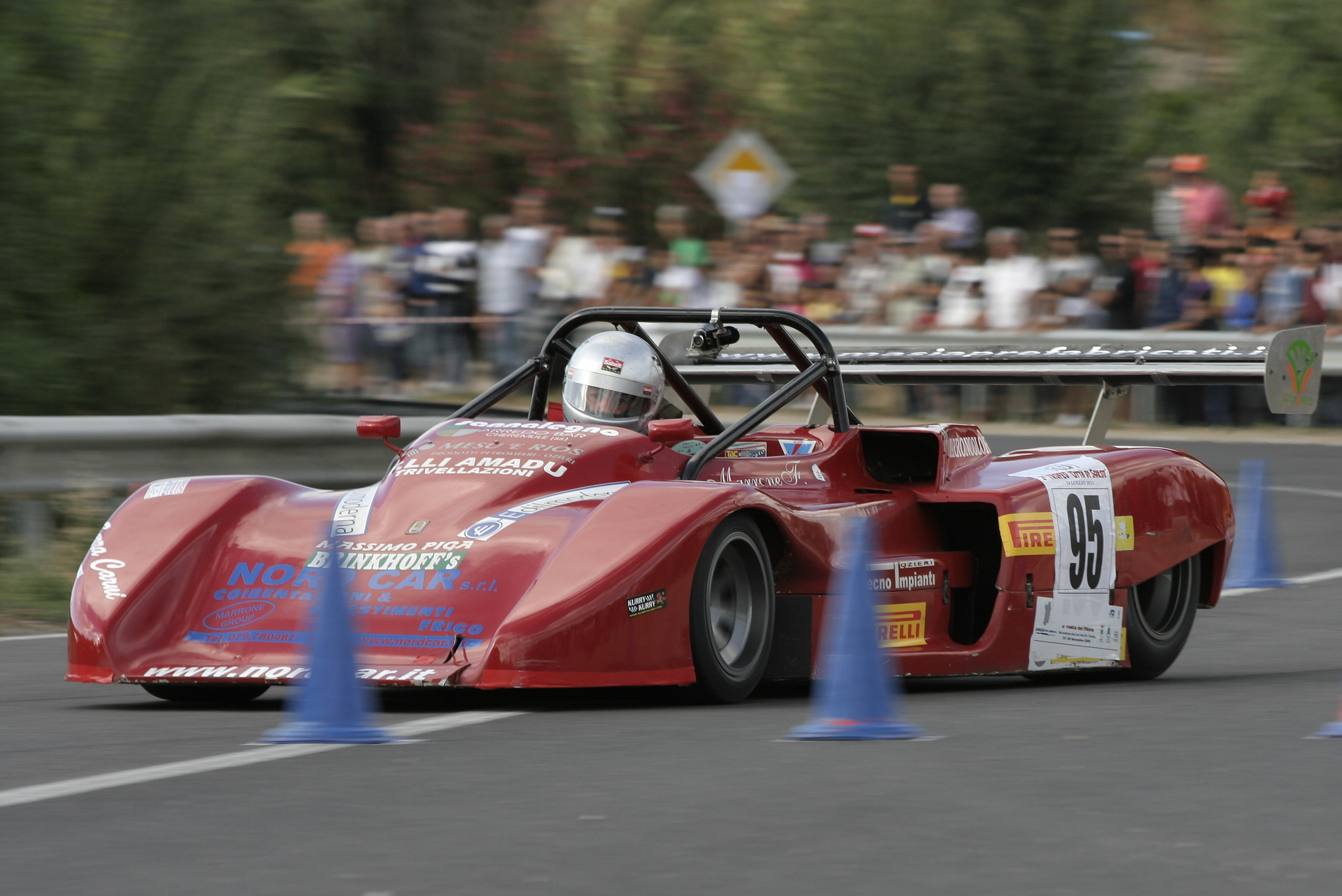 Slalom race in urban street